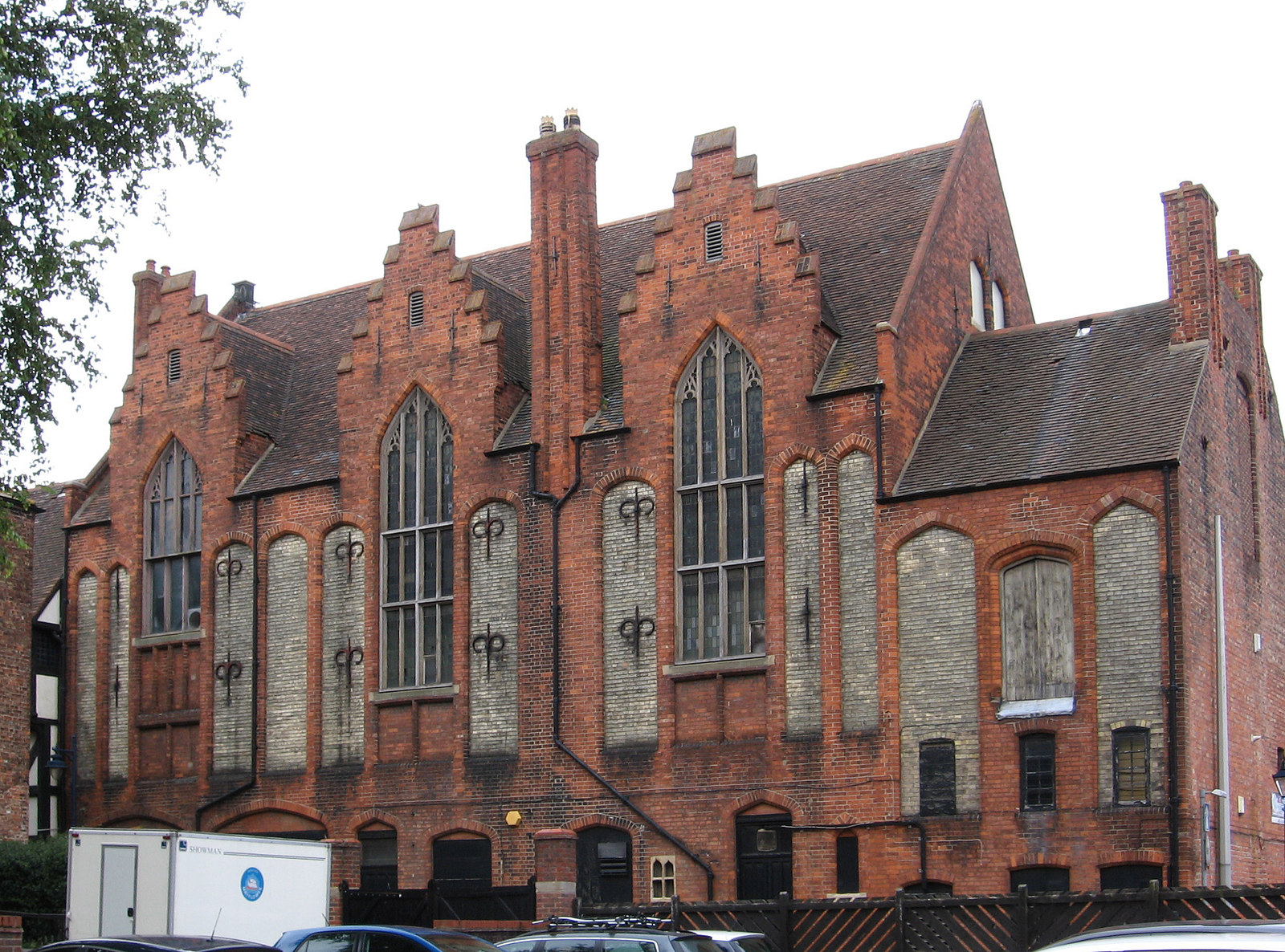 Boston - derelict building on Shodfriars Lane